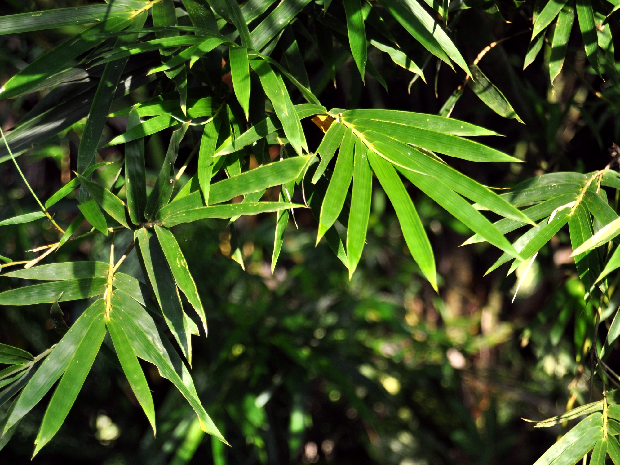 Chinese dwarf bamboo, Bambusa multiplex; leaf arrangements. From Bogor, West Java, Indonesia.